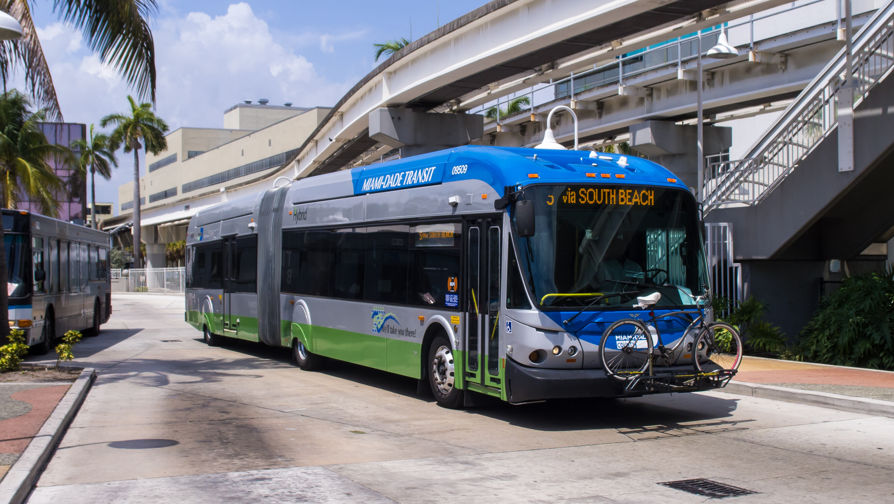 Miami Dade Transit route S (119) bus at Adrienne Arsht Center Bus Terminal